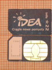 SIM - card for mobile phone - view from both sides, on the plotting paper distinctive card number, on the gilded connectors side, removed